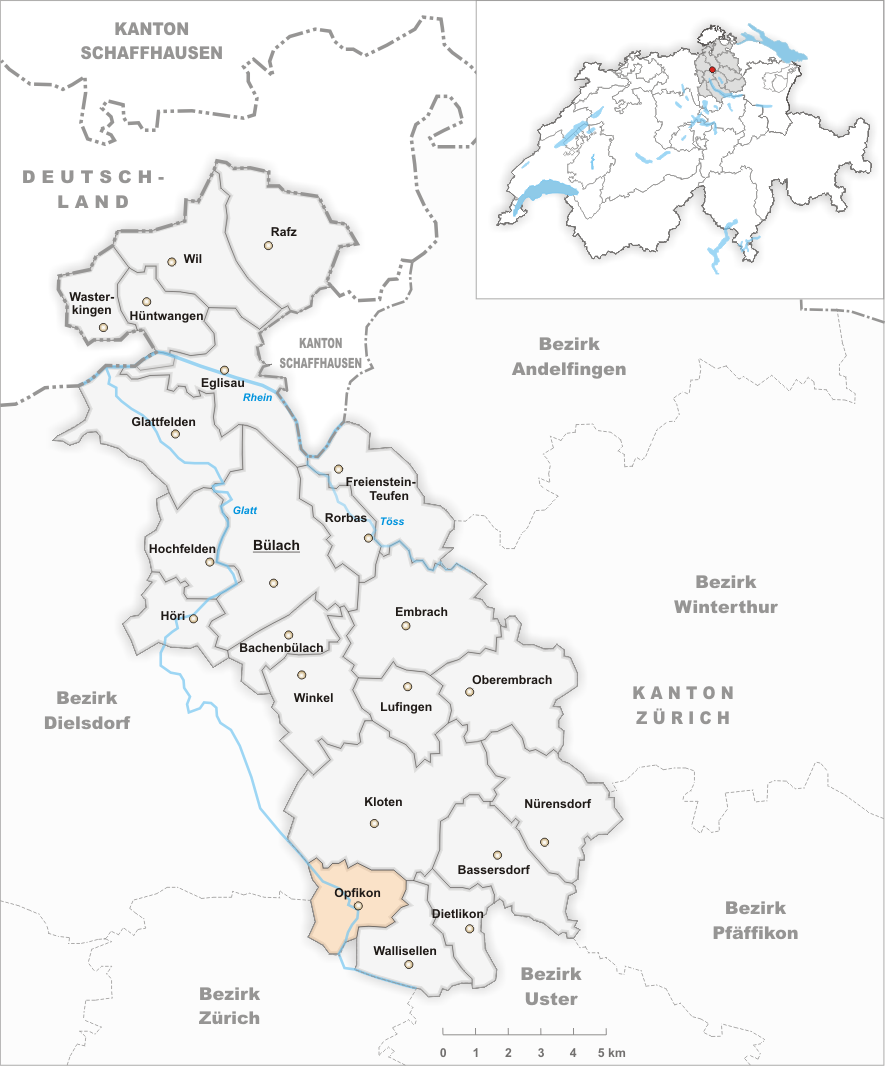 Municipality Opfikon